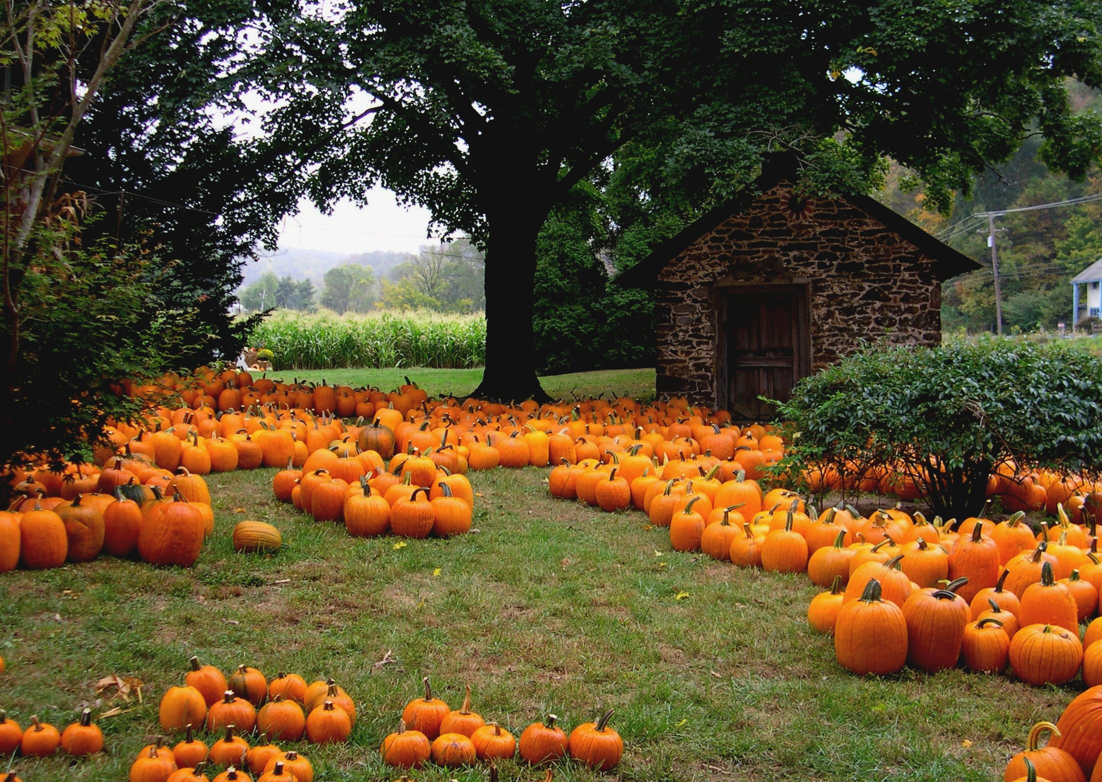 Photograph taken in Bucks County Pennsylvania at Trauger's Farm.